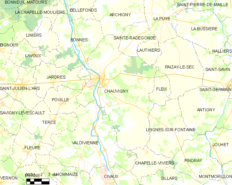 Map of French municipality Chauvigny